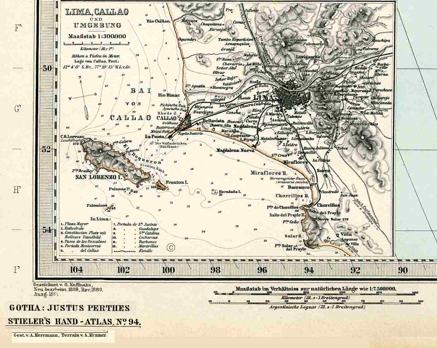 South America in 6 sheets, sheet 5